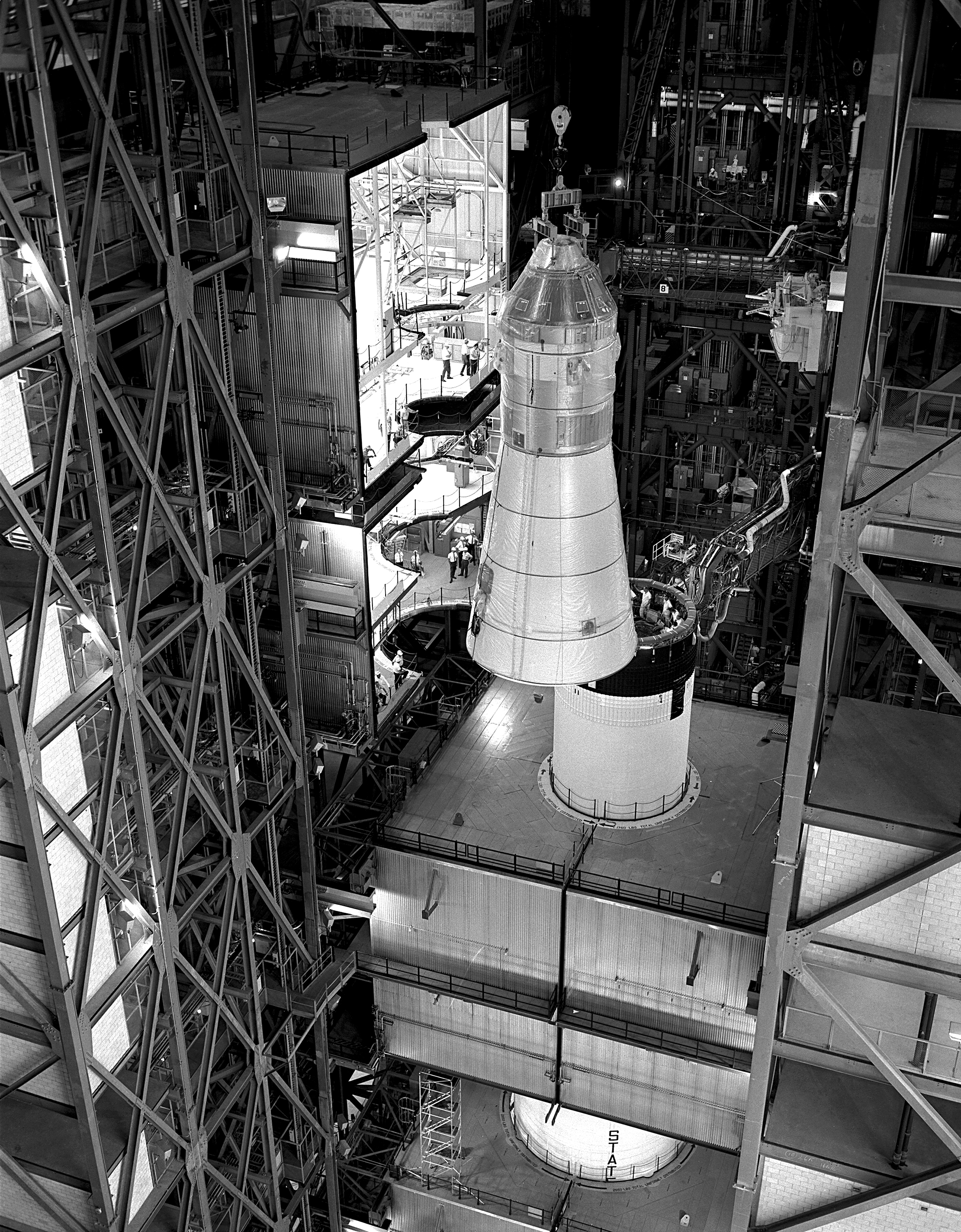 The 103 Apollo Command/Service Module is shown being mated to the Instrument Unit atop the three-stage Apollo/Saturn 503 Launch Vehicle inside the Vehicle Assembly Building (VAB).